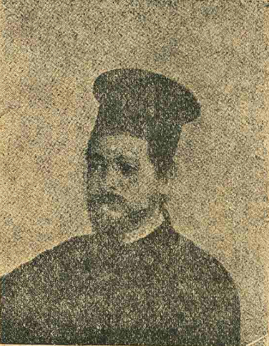 Vladimir Zhivkov